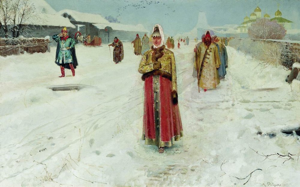 Sunday